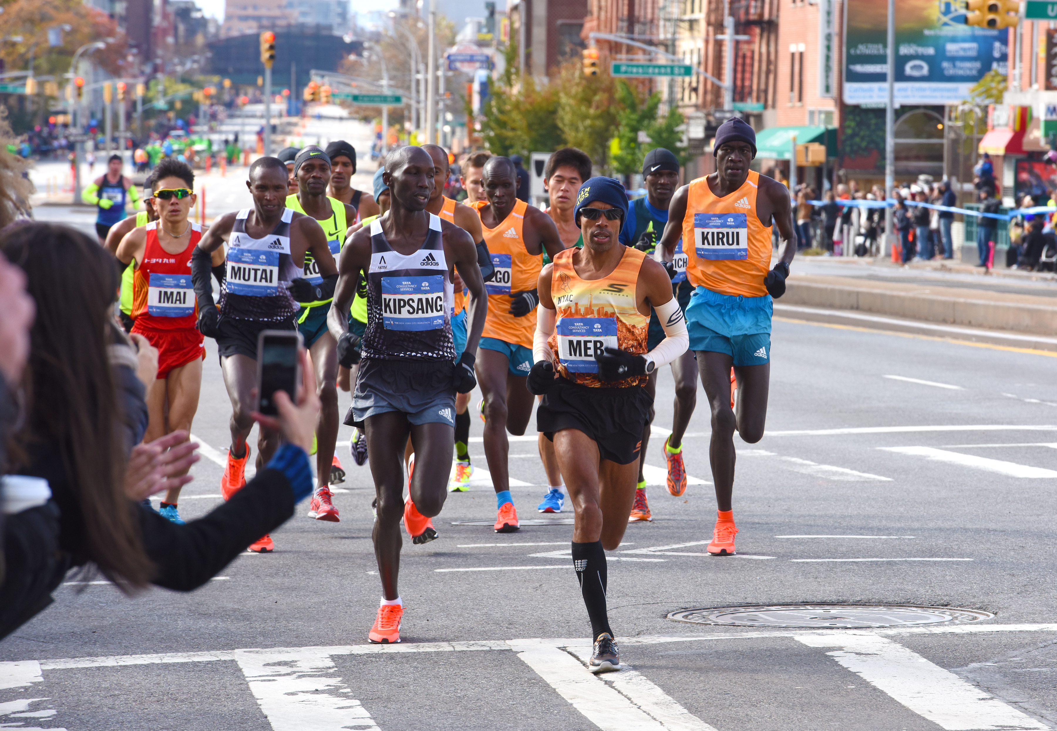 Lead men along Fourth Avenue in Brooklyn